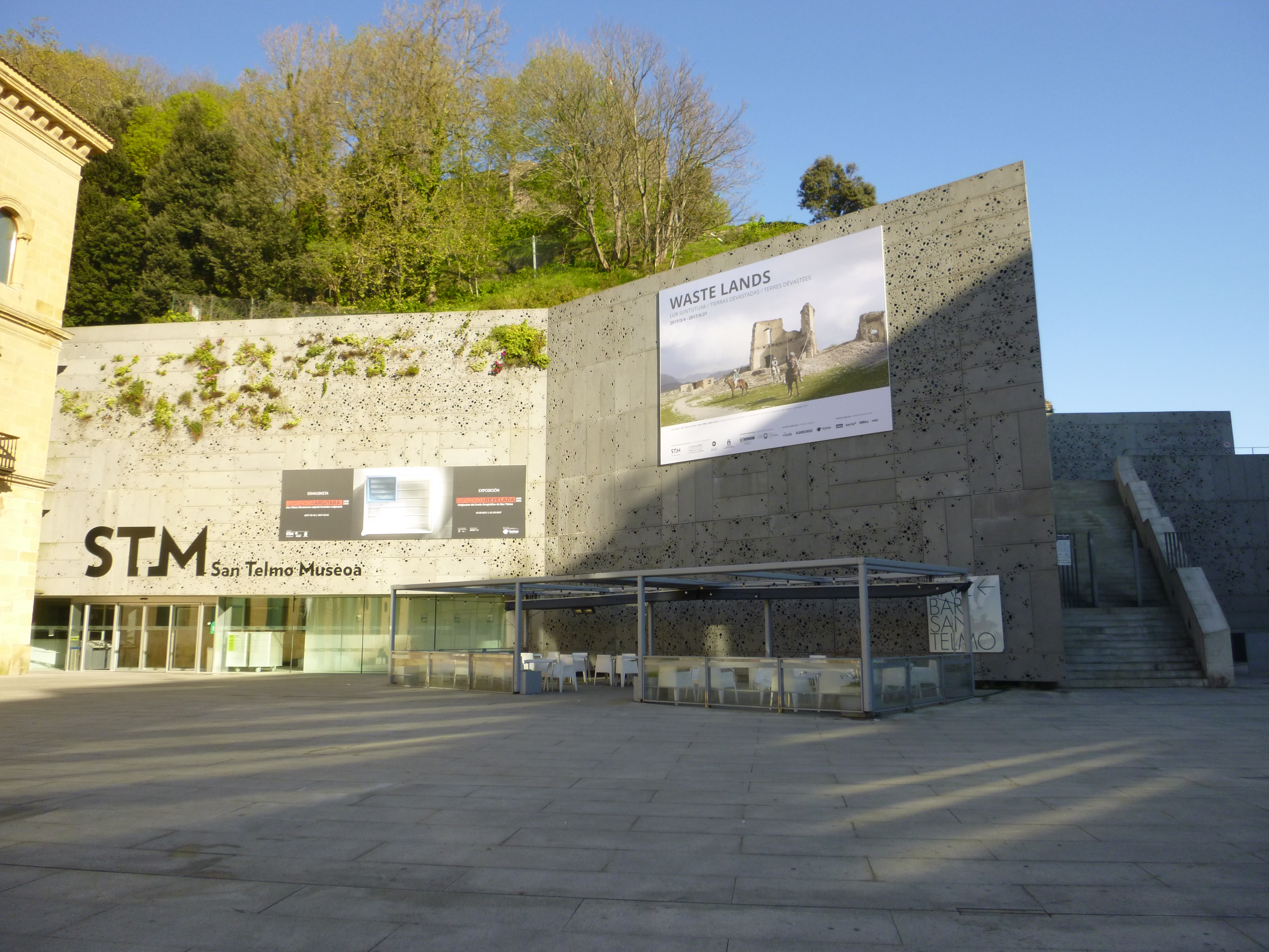 san telmo